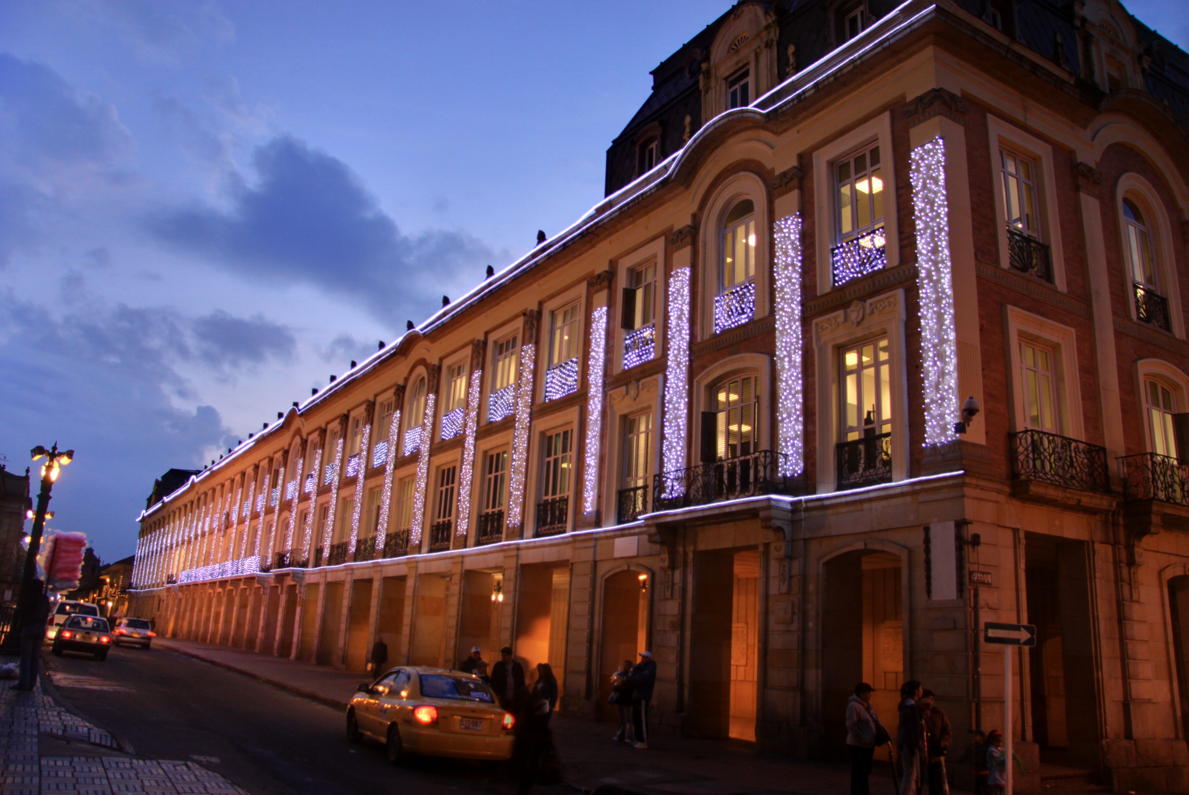 Please, have this description accessible to all by translating it in different languages.